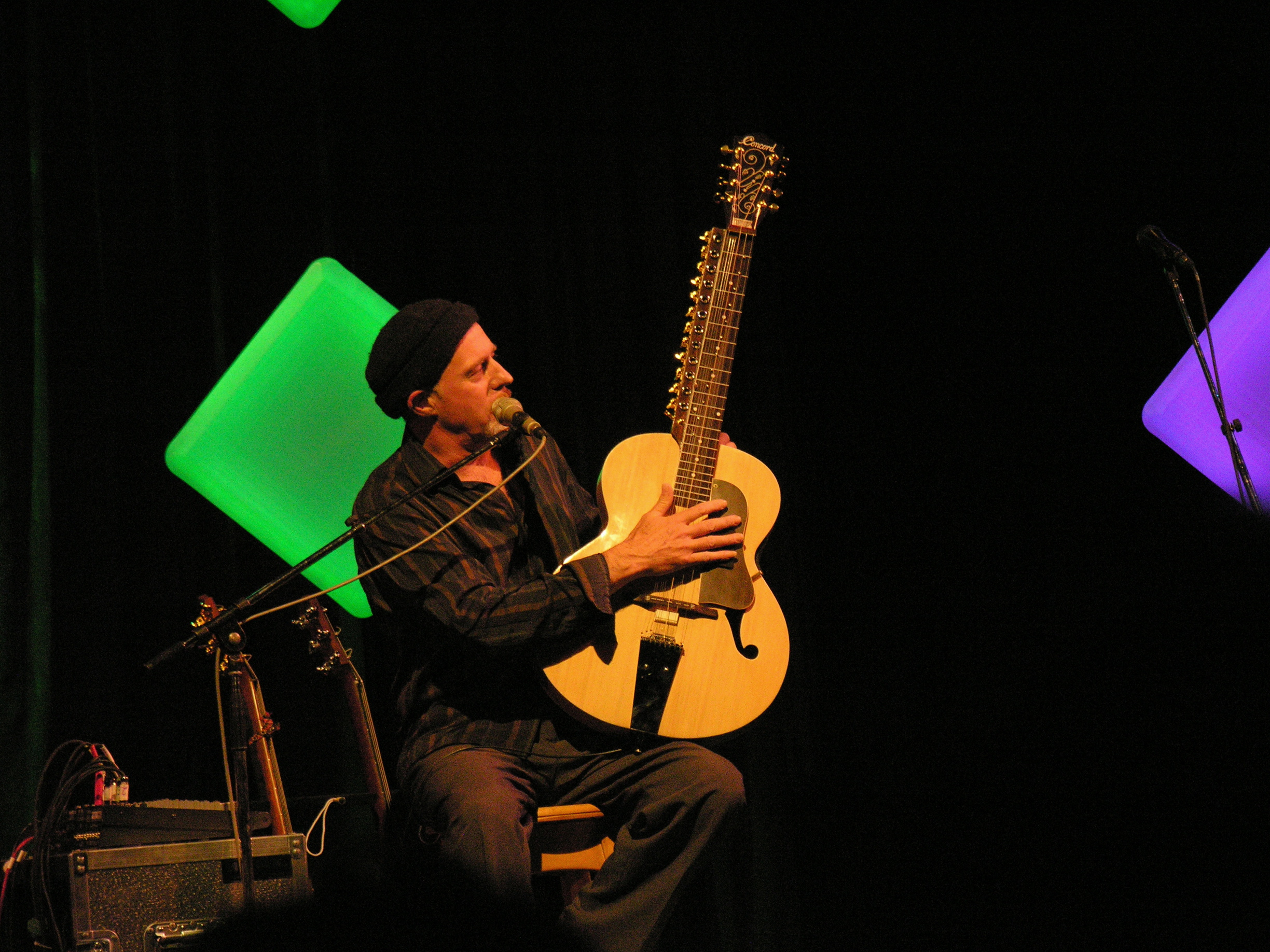 Harry Manx explaining his Mohan Veena instrument to an audience at a show